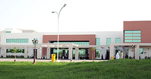 Learning Resources Block in a buildup area of 4200 square metres named after one of the earliest Arab lexicographers and philologists, Al Khalil Ibn Ahmad Al Farahidi.